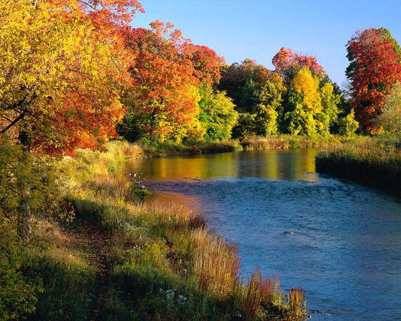 Indian Summer